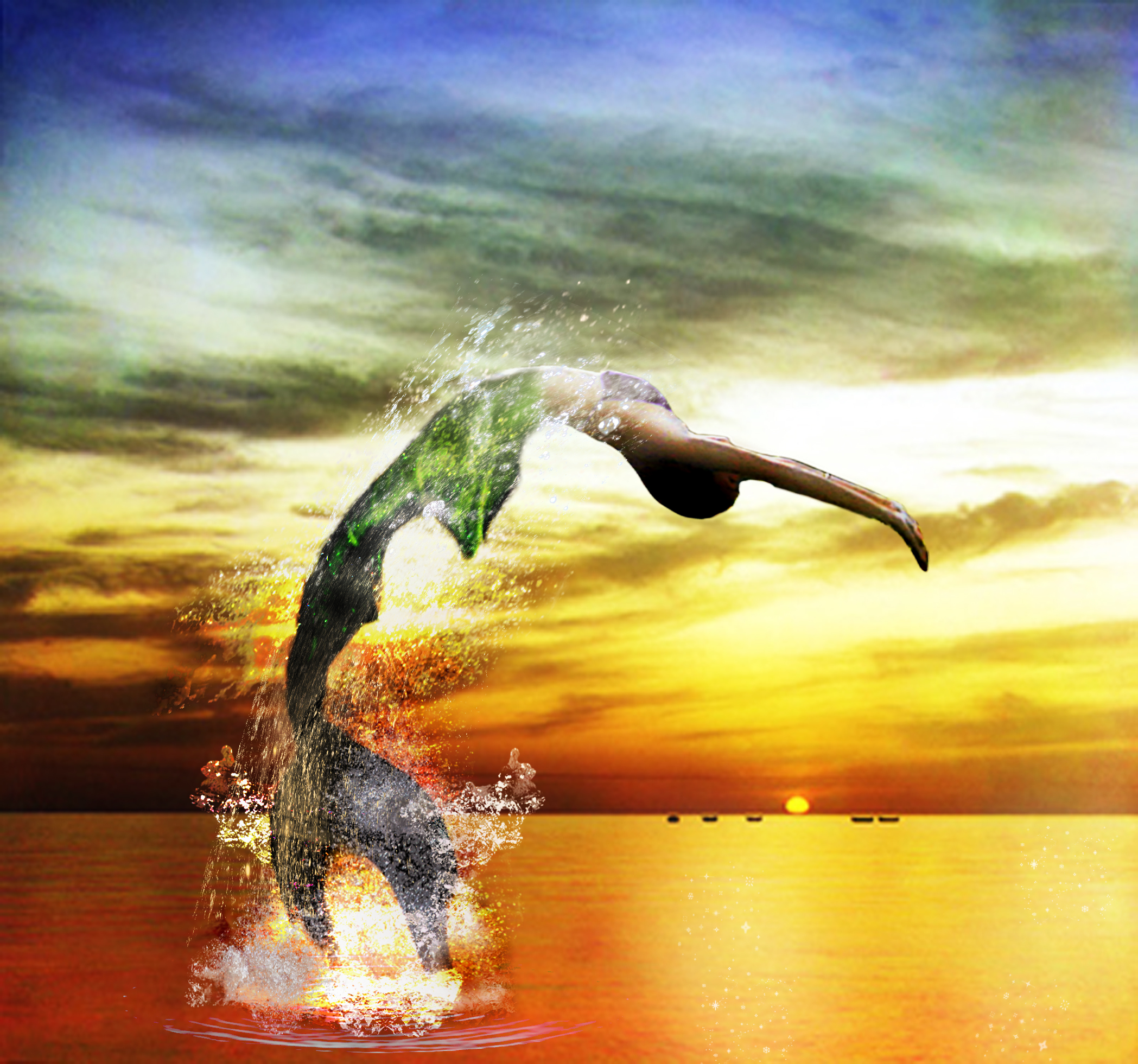 Mermaid